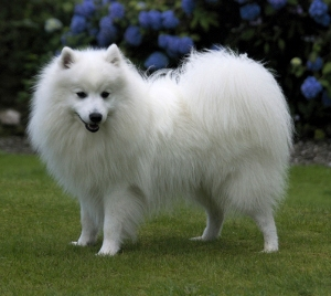 This is a good example of a Japanese Spitz Dog representing UK Kennel Club breed standard.